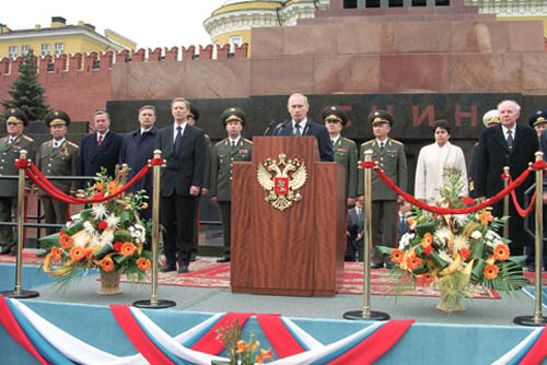 RED SQUARE. MOSCOW. President Putin addressing participants in the military parade dedicated to the 56th anniversary of the Soviet Victory in the Second World War.